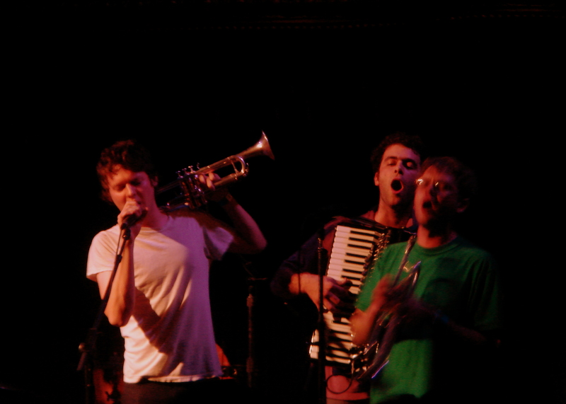 Beirut performing at the Great American Music Hall (San Francisco).